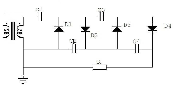 Помножувач Кокрофта-Уолтона